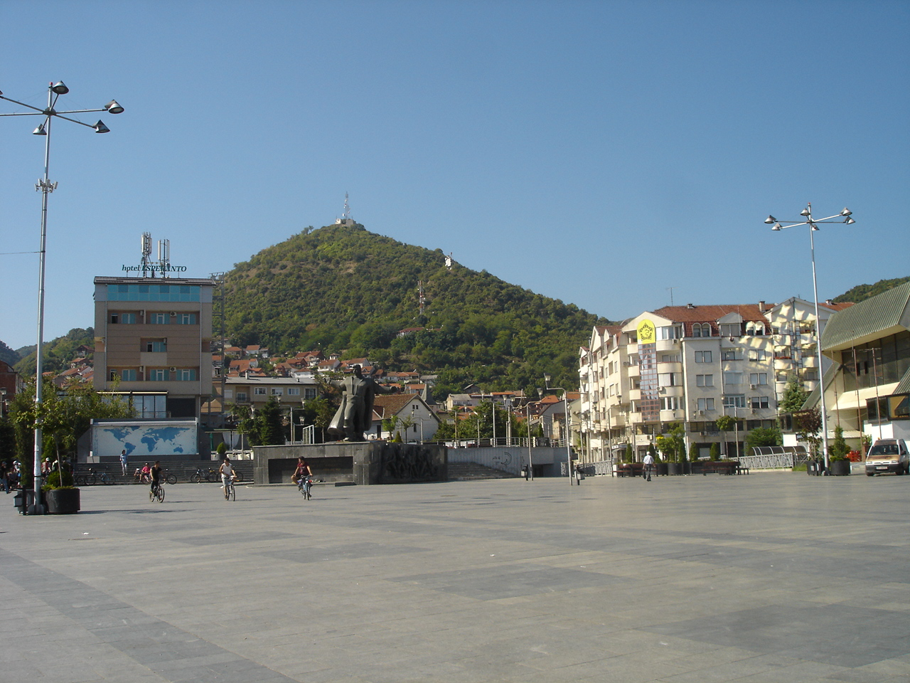 The downtown Strumica, Macedonia